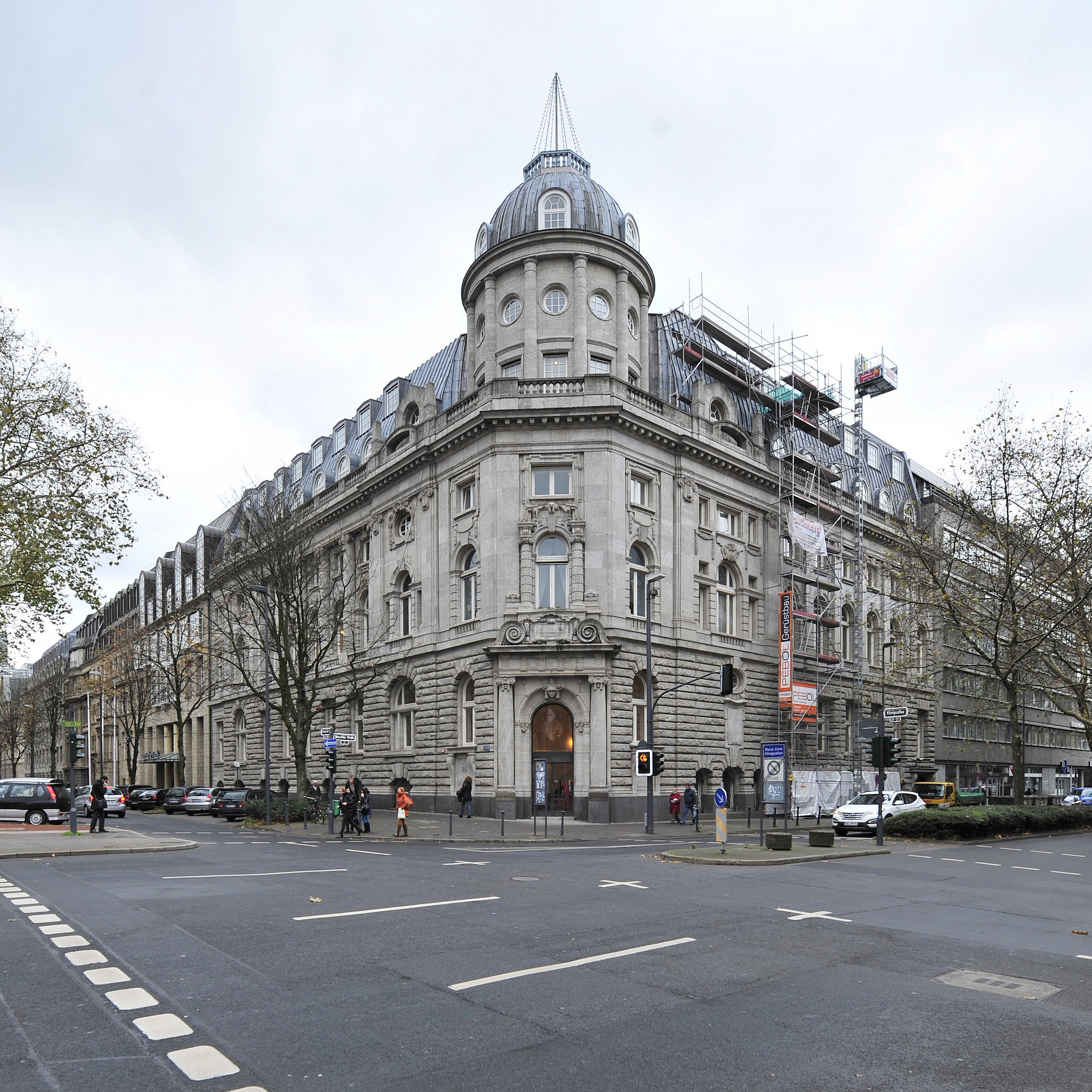 This is a photograph of an architectural monument. Königsallee 45